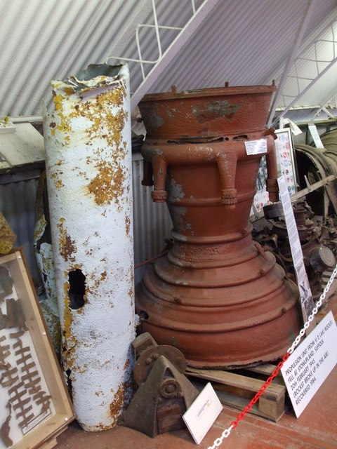 V2 rocket combustion chamber, at Norfolk and Suffolk Aviation Museum, Flixton, Suffolk. The rocket broke up mid air near Stowupland Suffolk on the 20th February 1945.